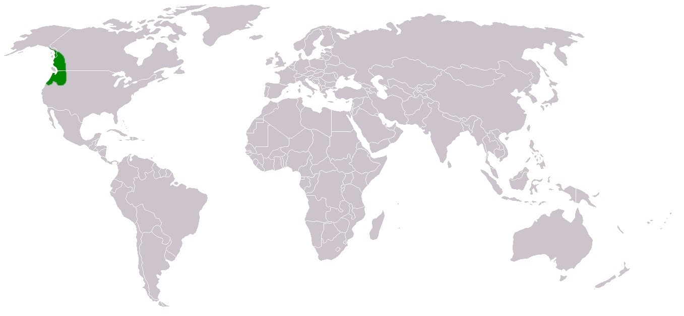 Distribution map of Oncorhynchus mykiss — Rainbow trout, Steelhead trout. Native to coastal western North America.